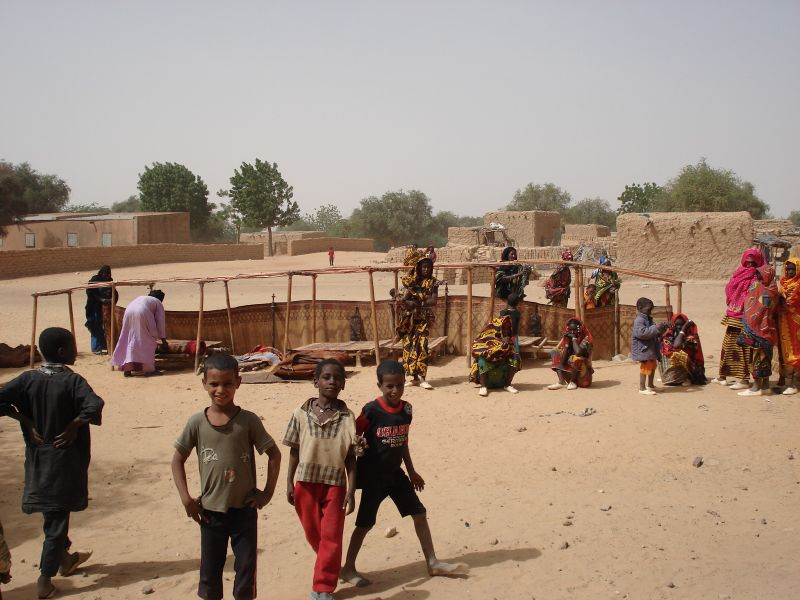 The lean-to that was built for us at Inates gets disassembled.